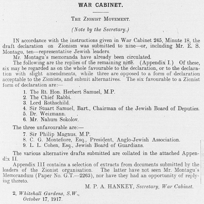 Balfour Declaration War Cabinet minutes appendix 17 October 1917 CAB 24/4